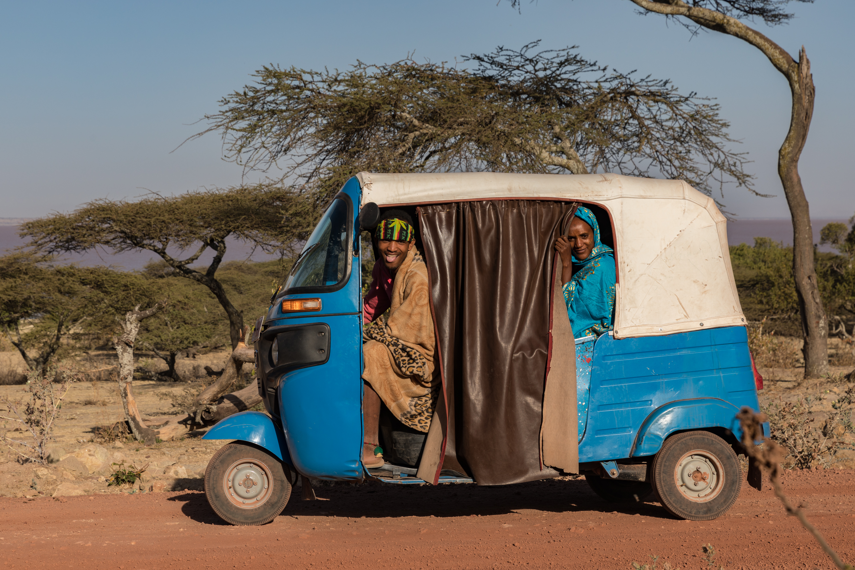 Ethiopia, Oromia, Langano Lake African taxi. There are usually no private cars in the countryside, only some buses and trucks - and this kind of simple taxis. The lake in the background has reddish water due to salinity. It is the dry season.